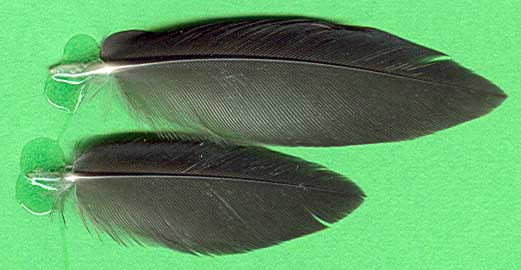 Feathers of a male Blackbird